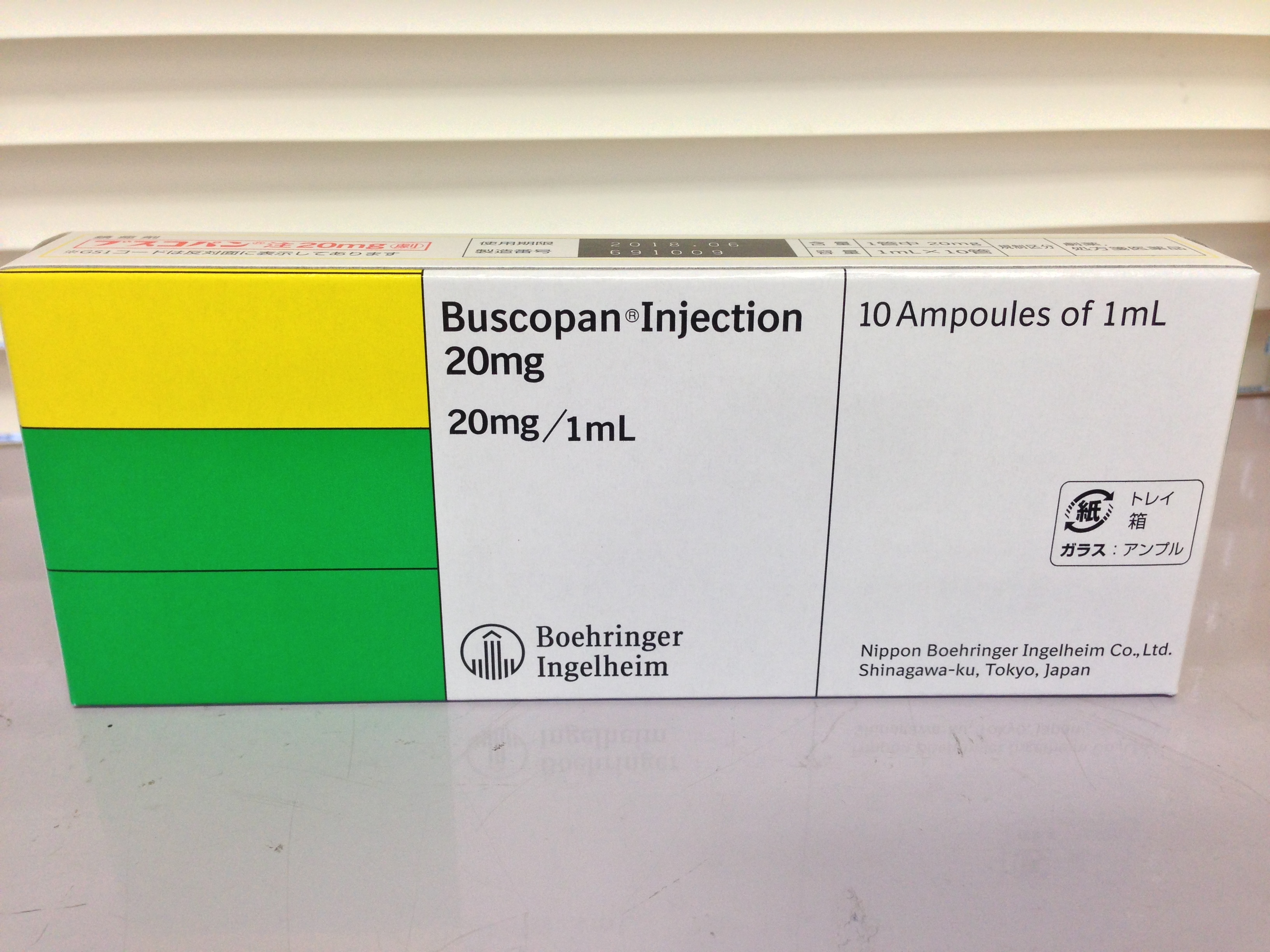 Butylscopolamine (Hyoscine butylbromide)